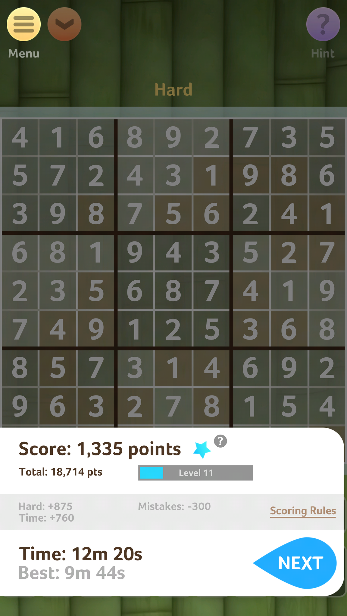 a sudoku game app